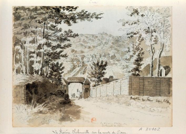 "The fief of La Rivière Thibouville on the way to Caen", pen drawing, 18th century. La Rivière Thibouville is nowadays a part of Nassandres (Eure, Haute-Normandie, France).